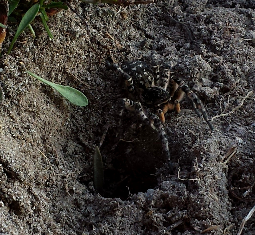 Lycosa singoriensis Small salt lake near Podersdorf, district Neusiedl am See, Burgenland, Austria - ca. 120 m a.s.l.